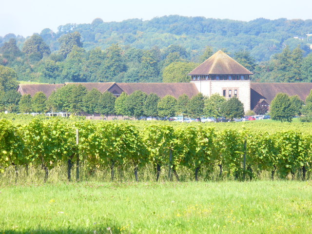 Denbies Vineyard Seen from the A24, the vineyard has a large Visitor Centre at its heart. Beyond are the wooded North Downs by Ranmore.